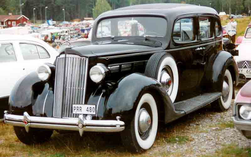 Packard One Twenty Eight 4-Door Sedan